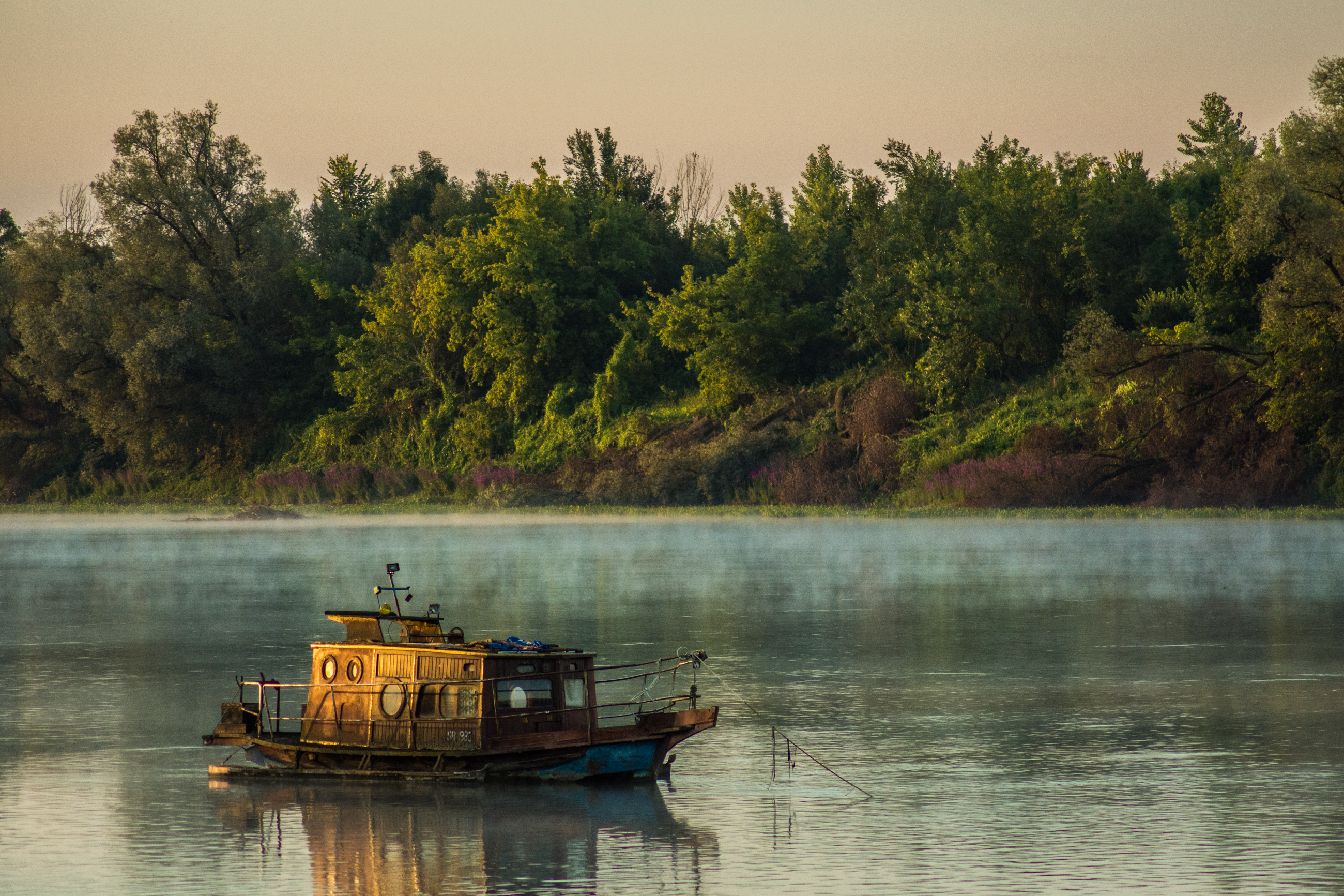 River Sava This is a a photo of a natural area in Croatia with ID: SL10